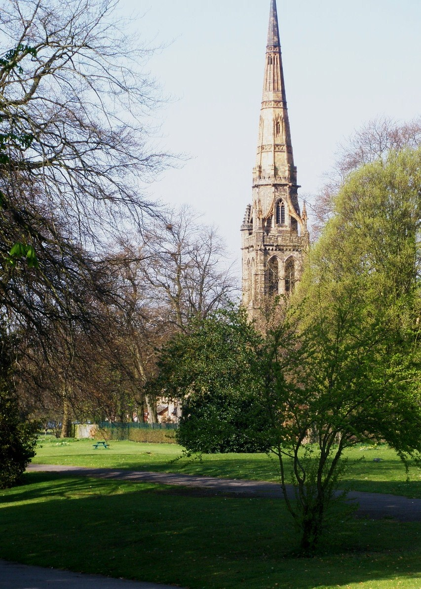 Platt Fields Park, Rusholme, Manchester, with the tower and spire of Holy Trinity parish church